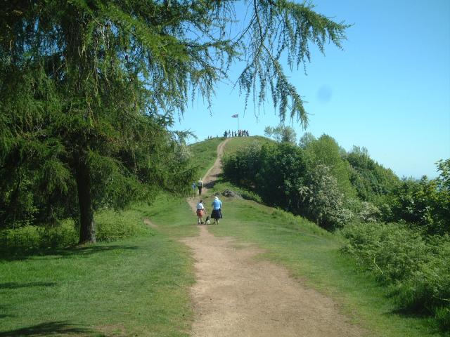 Thirdsland and Jubilee Hill on the Malvern Hills. Jubilee Hill is the latest of the minor peaks on The Malvern Hills to be named. This was named on the morning of Her Majesty's Golden Jubilee in 2002. Thirdsland or "King's Third" is part of what was left when King Charles sold off his land in Malvern Chase - a former Royal Forest.